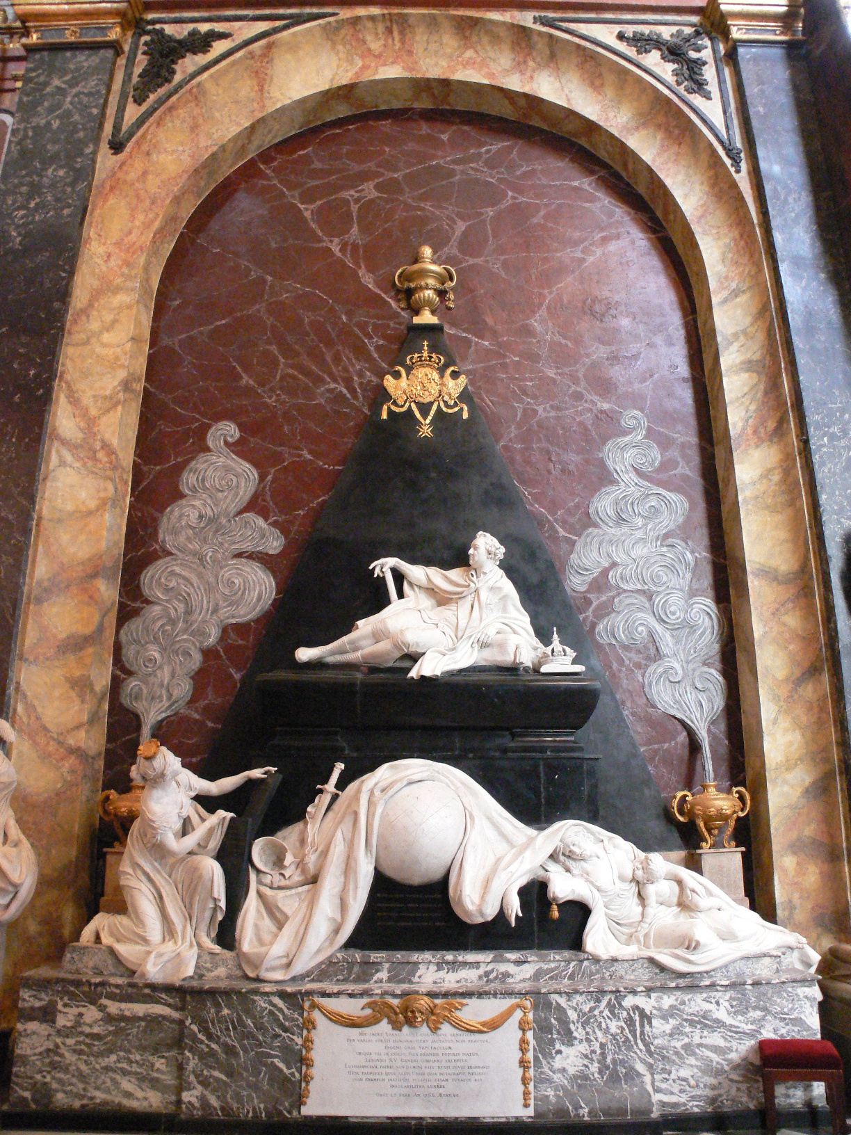 Tomb of King Stanislas Leszczynski, in Bonsecours Church, Nancy, France